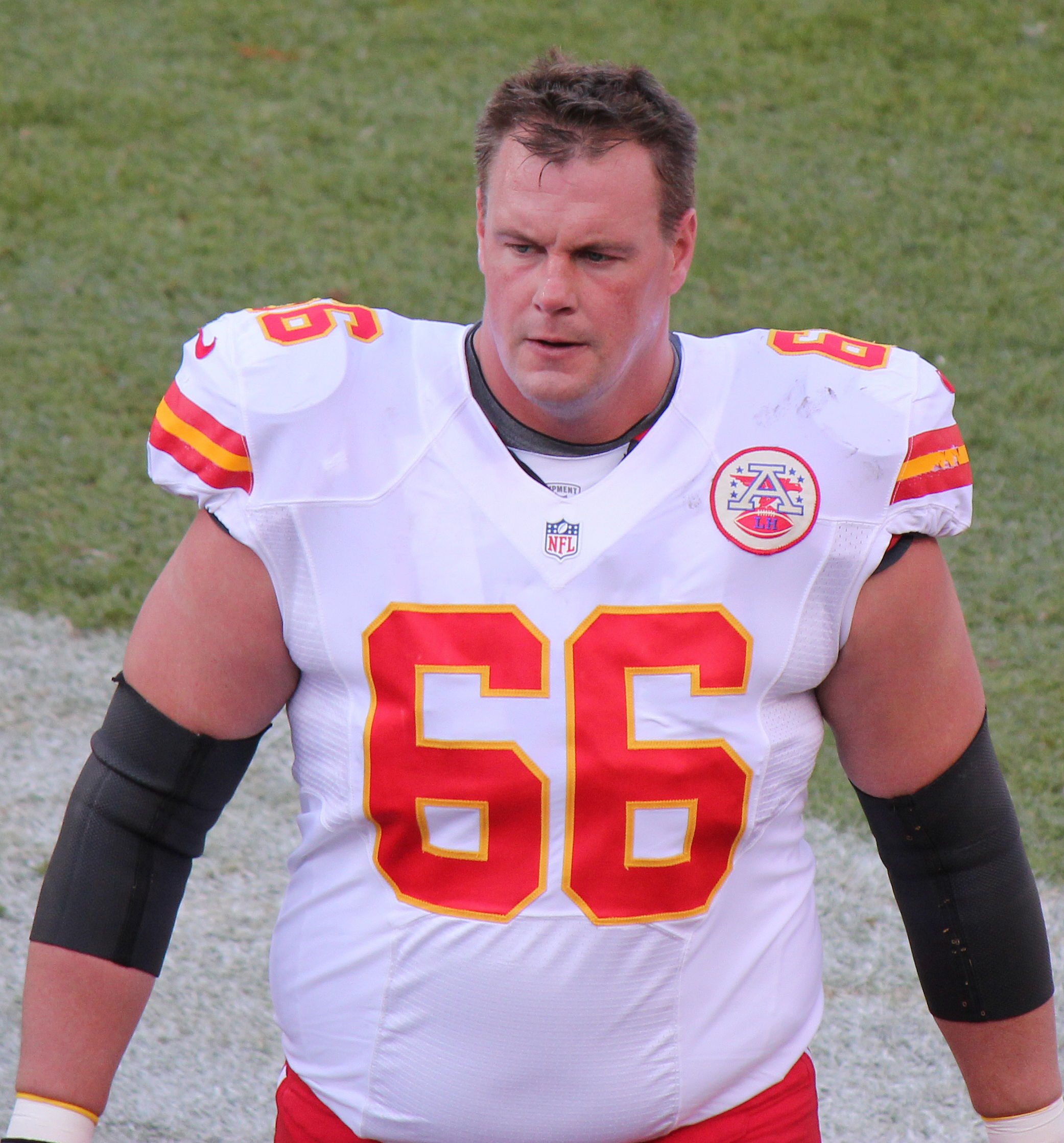 Russ Hochstein, a player on the National Football League.